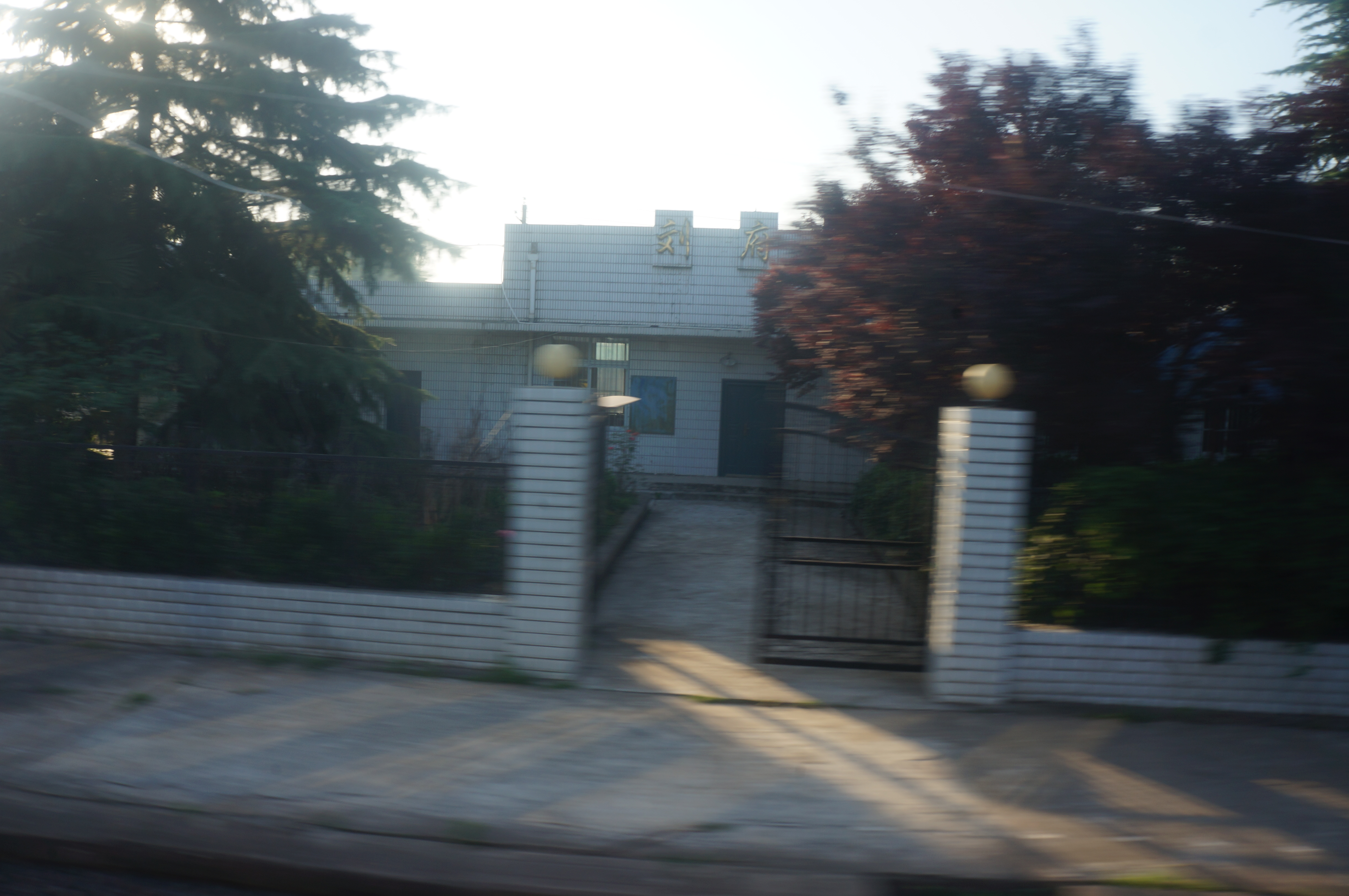 201705 Station Building of Liufu Station